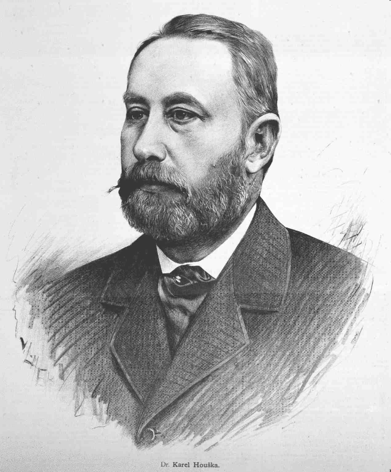 Karel Houška (1833-1889), mayor of Pilsen 1888-89